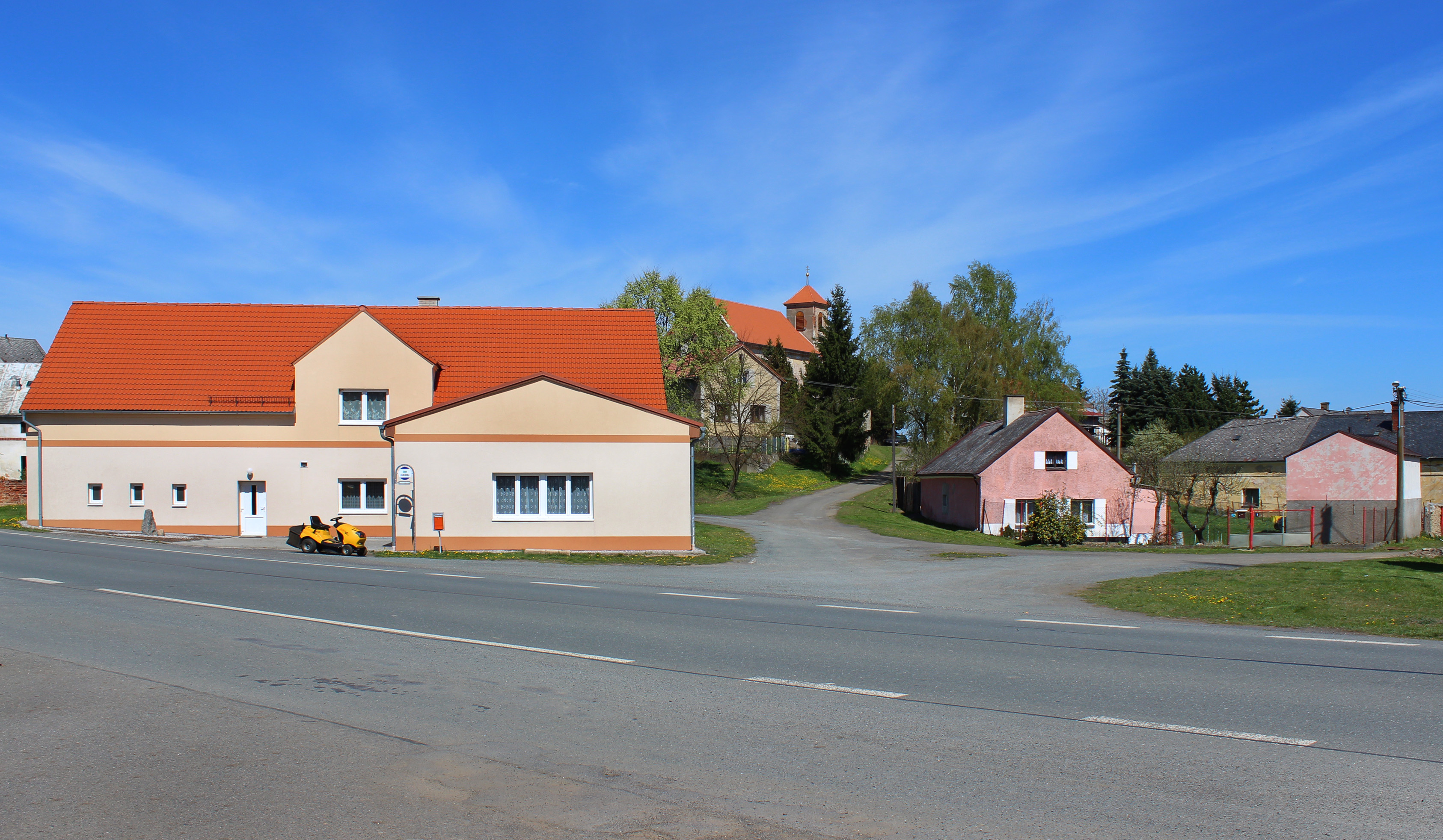 Common in Slavice village, part of Horní Kozolupy, Czech Republic